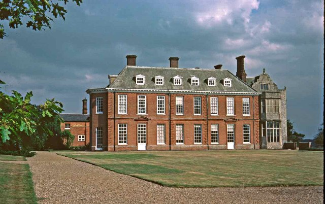 Felbrigg Hall, near Holt, Norfolk. Beautiful house. When I last went there in 1996 the rooms were still lit by natural light.